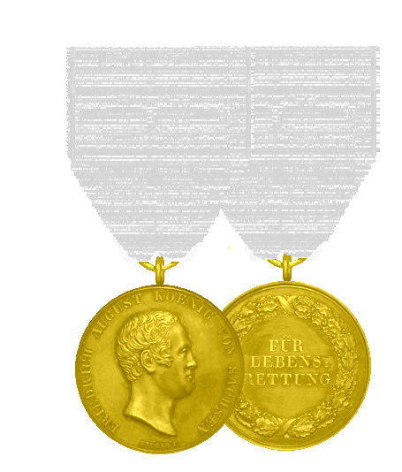 Lebensrettungsmedaille in Gold Königreich Sachsen